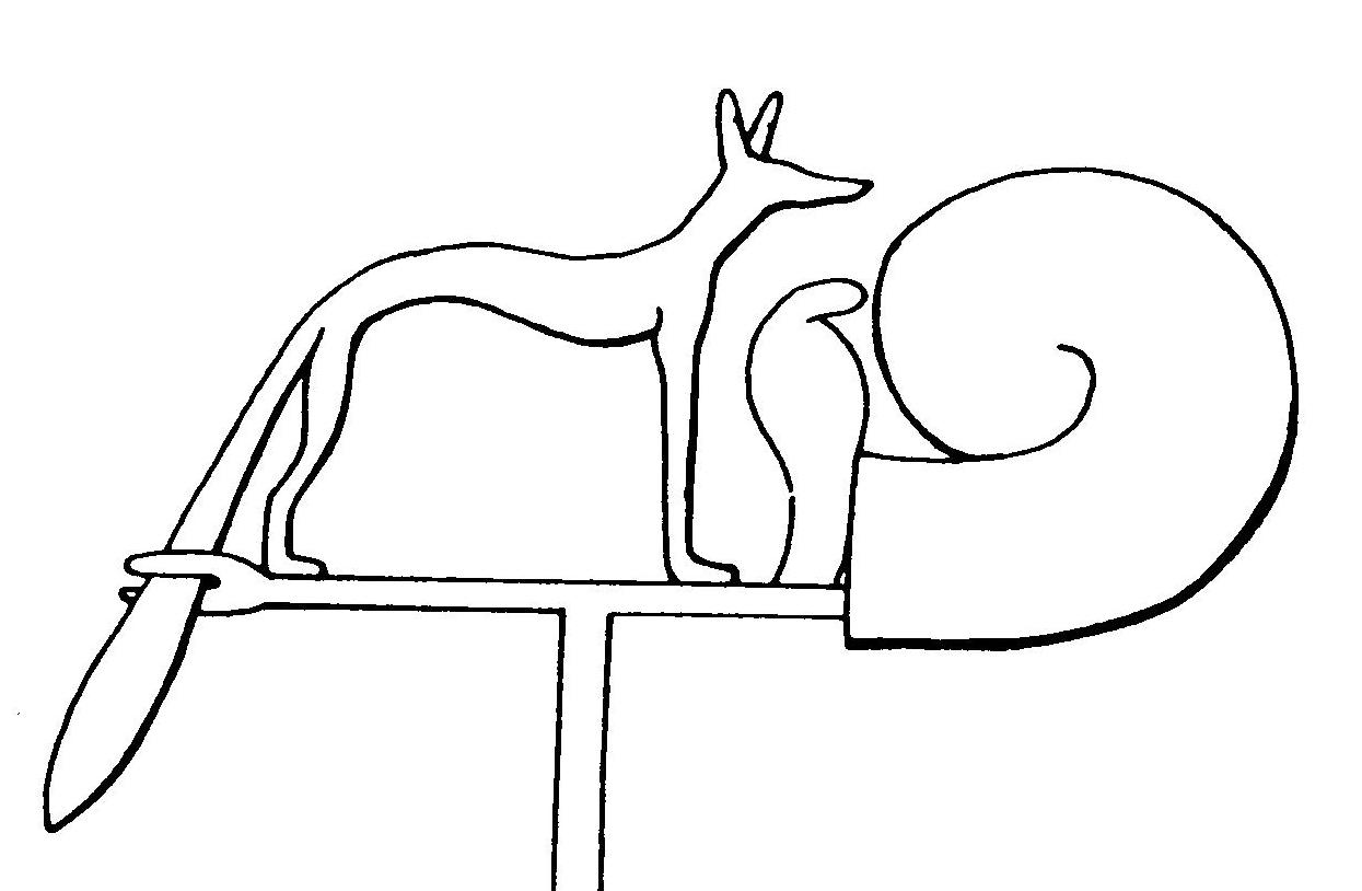 The god Wepwawet standing